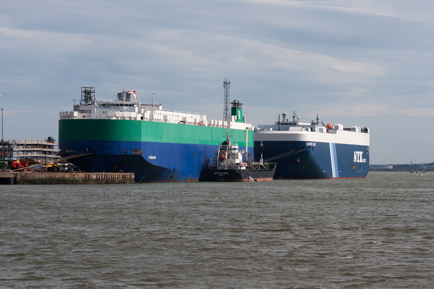 Platinum Ray and Demeter Leader car transporters berthed at Dock Head, Southampton. Oiler Whitchallenger alongside. Information about Platinum Ray (ship) may be found at IMO 9210438.A ship can change name and flag state through time, but the IMO number remains the same through the hull's entire lifetime. As a result, it can be useful to identify a ship by using the IMO number. Information about Demeter Leader (ship) may be found at IMO 9477921.A ship can change name and flag state through time, but the IMO number remains the same through the hull's entire lifetime. As a result, it can be useful to identify a ship by using the IMO number. Information about Whitchallenger (ship) may be found at IMO 9252278.A ship can change name and flag state through time, but the IMO number remains the same through the hull's entire lifetime. As a result, it can be useful to identify a ship by using the IMO number.